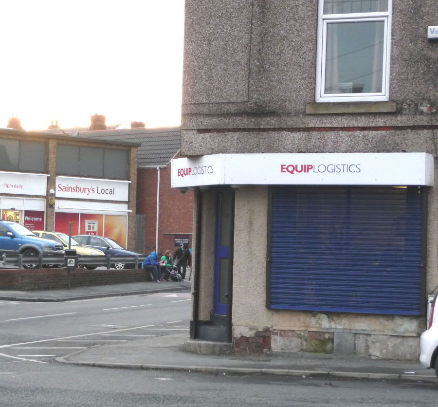 Former shop premises of Egginton News, on Westfield Lane, Mansfield. A narrow shop with a small frontal area stretching along the side facing Sainsbury's, with additional depth created by knocking-through to the adjacent former dwelling house providing extra sales and storage space. The newsagency and shop closed in 2004, after the Jacksons convenience stores group was sold to Sainsbury's, which started selling newspapers and magazines. Later the shop was used by a company providing waste management solutions and internet sales of industrial tools, equipment and protective clothing.